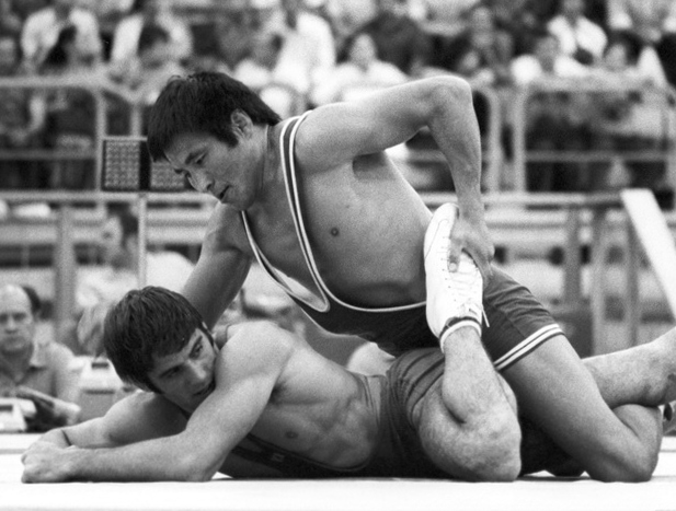 “Wrestlers Valentin Raychev and Jamtsyn Davaajav during their match.”. A men's Wrestling freestyle 74 kg match at the 1980 Summer Olympics. Gold medal winner Valentin Raychev of Bulgaria (bottom) and silver medal winner Jamtsyn Davaajav of Mongolia. XXII Summer Olympics. CSKA Sports Complex in Moscow.